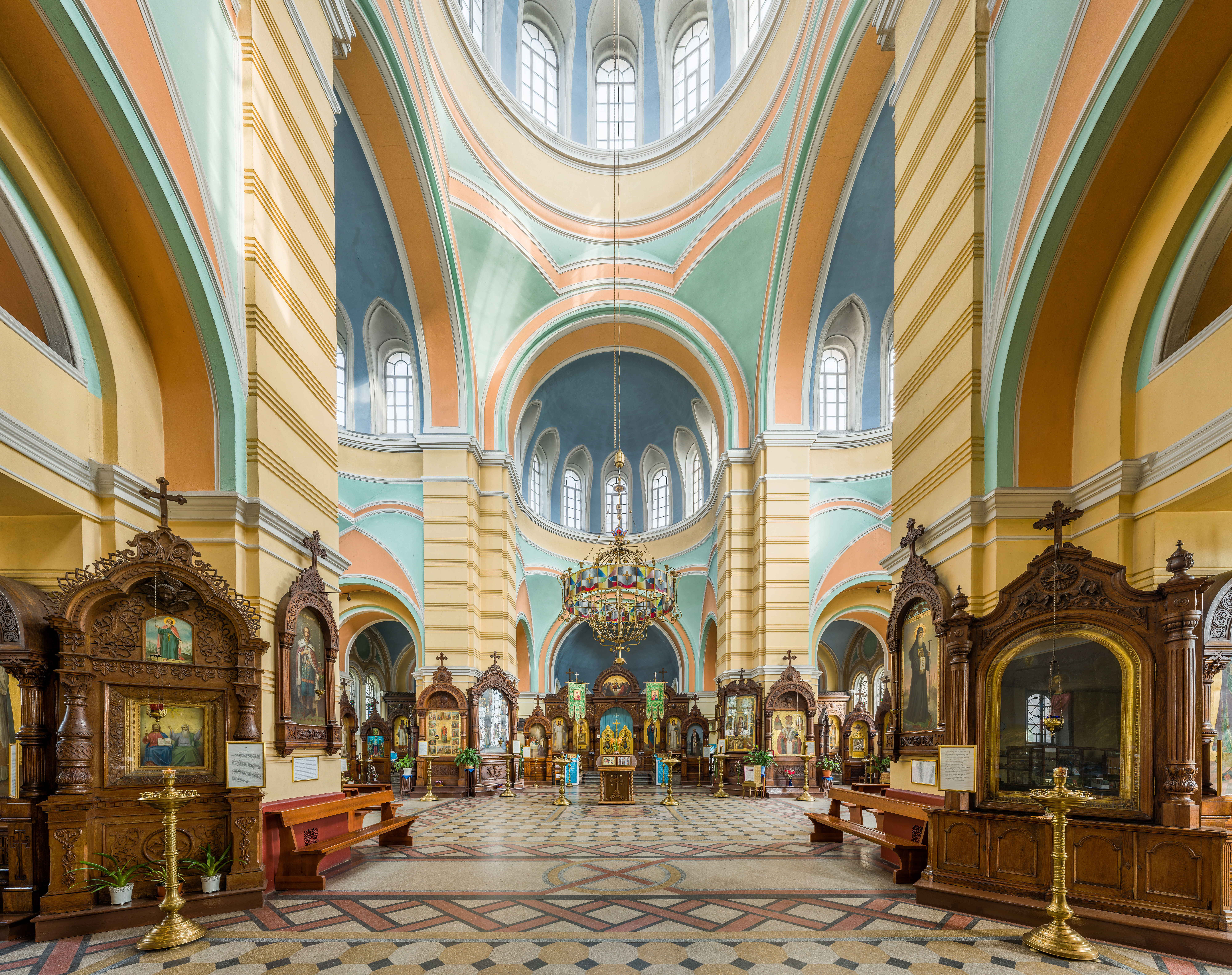 Orthodox Church of Revelation of the Holy Mother of God in Vilnius, Lithuania.